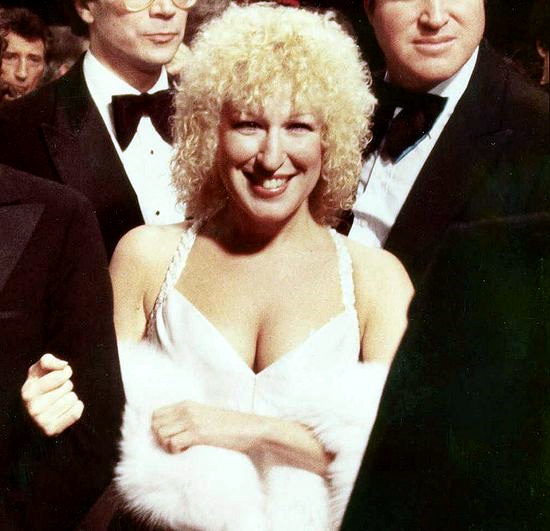 actress/singer Bette Midler at the premiere of Midler's movie "The Rose".